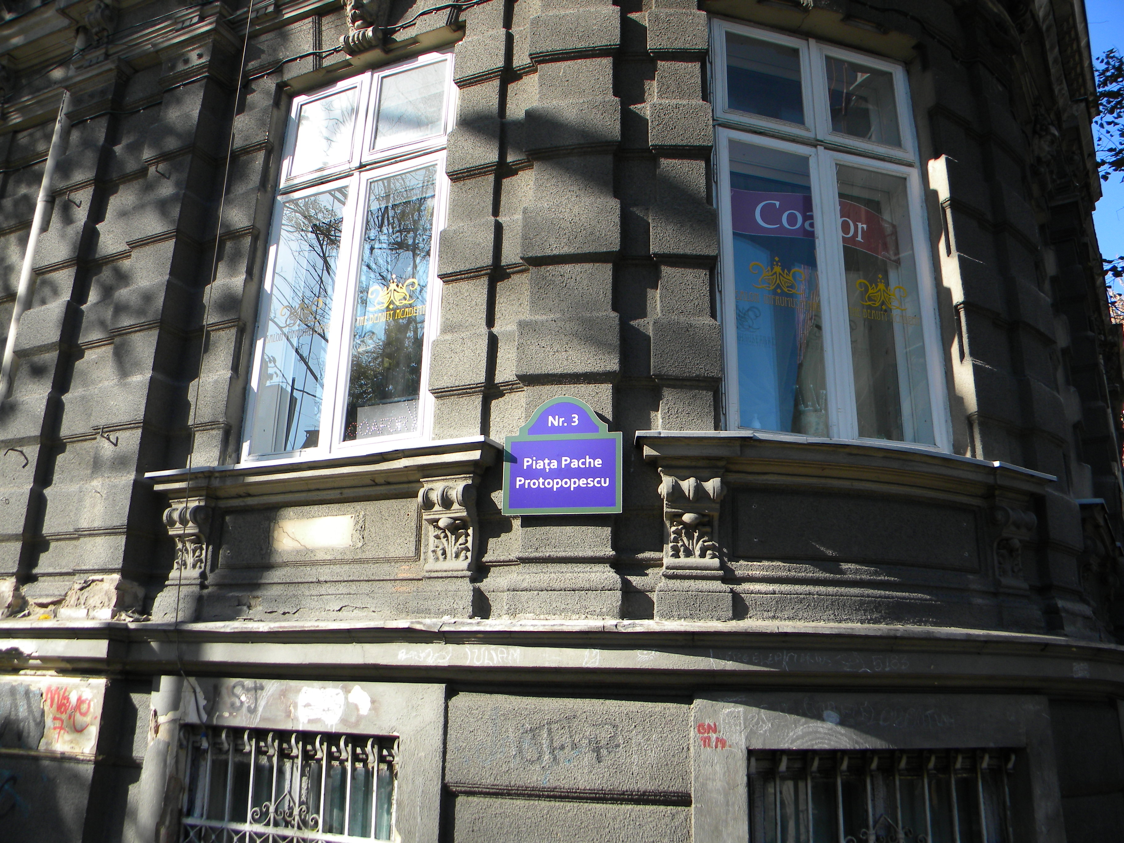 Bucuresti, Romania, Piata Pache Protopopescu nr. 3, sect. 2, (B-II-m-B-19485) (1)